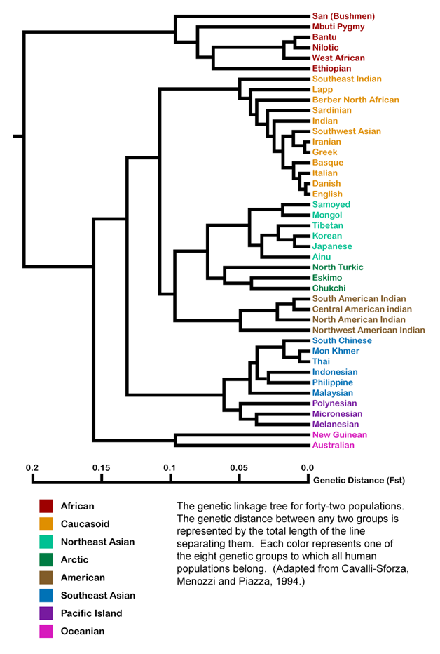 Adapted from Cavalli-Sforza, L.L., Menozzi, P. & Piazza, A,. Reconstruction of human evolution: Bringing together genetic, archaeological, and linguistic data, 1988.